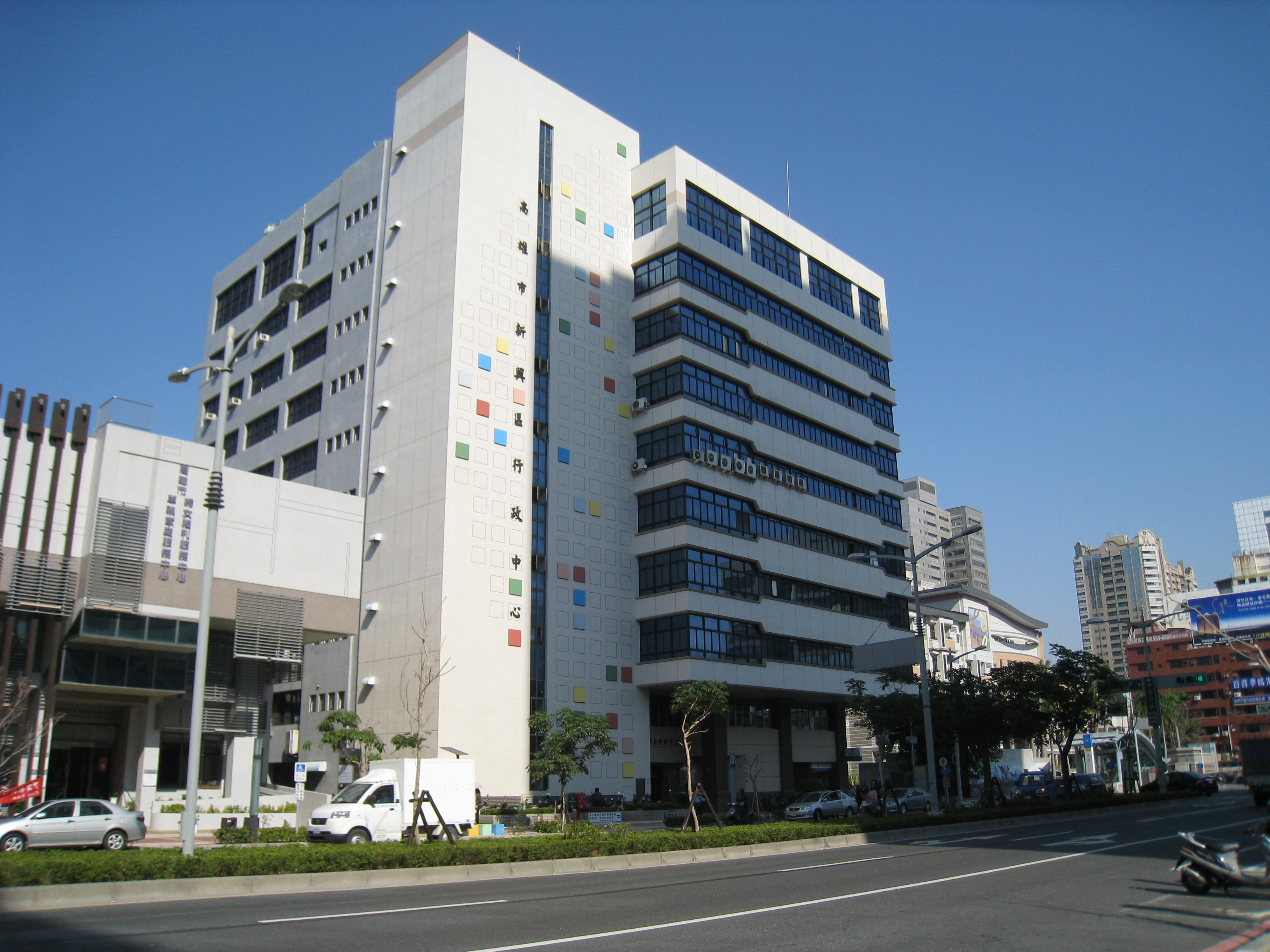 Sinsing District Administration Center, Kaohsiung City.